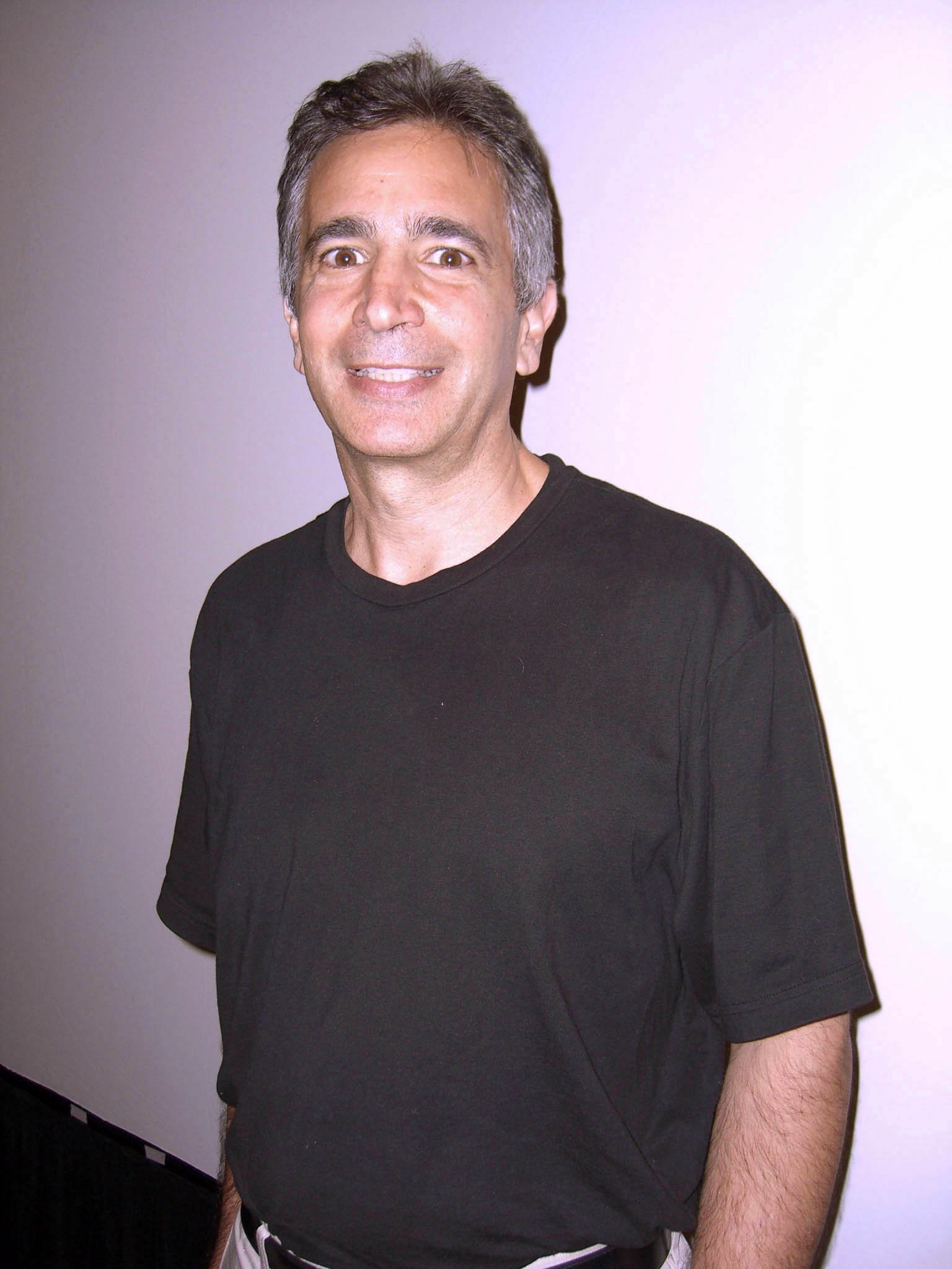 Comic book creator Bill Jemas at the Big Apple Convention in Manhattan, October 2, 2010. This photo was created by Luigi Novi. It is not in the public domain, and use of this file outside of the licensing terms is a copyright violation.